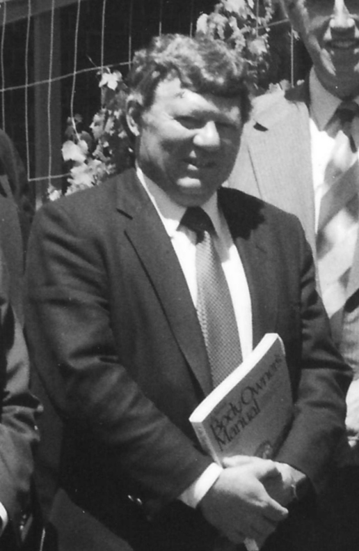 Visit of Minister Hon. Barry Jones to CSIRO Division of Human Nutrition at the Glenthorne Laboratory, O'Halloran Hill, South Australia. Tuesday 6 November, 1984. Photo appears in the Division's Fifth Report, 1983/4, page 126. Mr Gordon Bilney (Minister for Overseas Development)